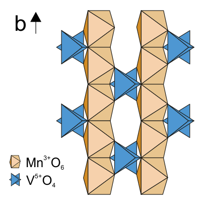 Simplified illustration of the structure of krettnichite down [104]. Reference: Brugger et al., Journal of Mineralogy, 2001, vol. 13, pp. 145-158.